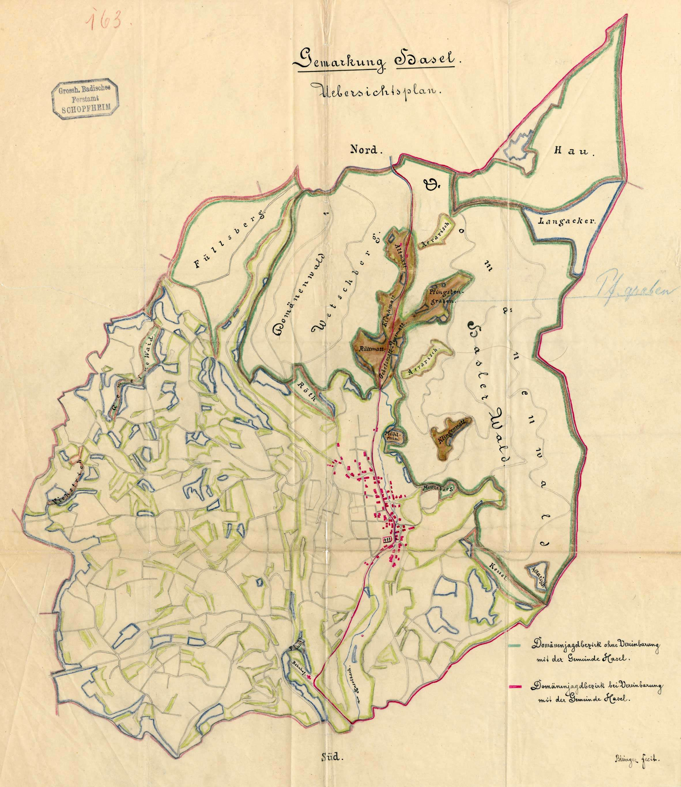 Map of the hunting grounds/districts in the German municipality of Hasel in Baden, 1904